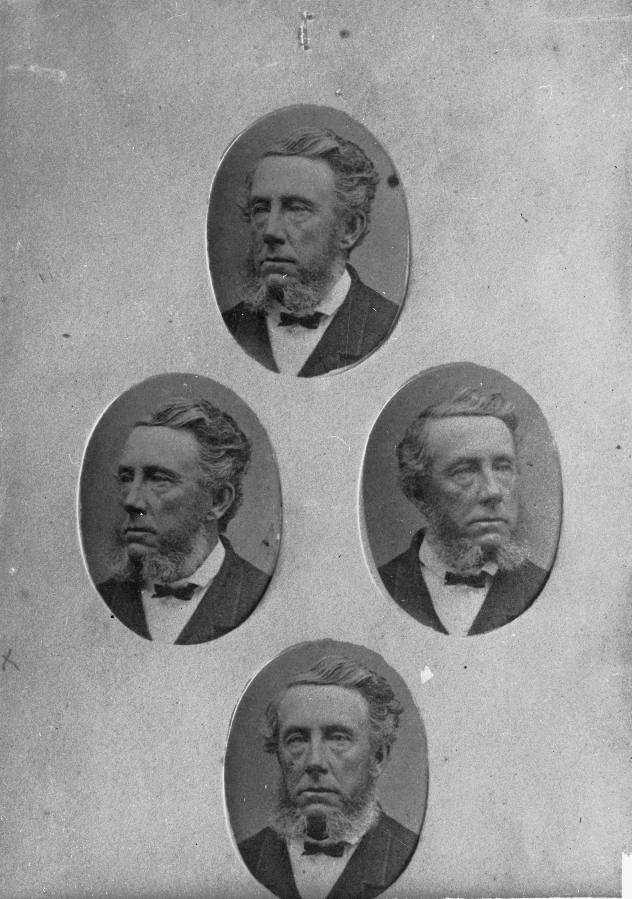 Microfiche incorrectly states this is A B Moncrrieff - For A B Moncrieff see GN12272-73 (G Brooks) - This is H B Hughes - from GN018808-9 of Pastoral Pioneers of SA, Vol. 1 p.44 (G Brooks)